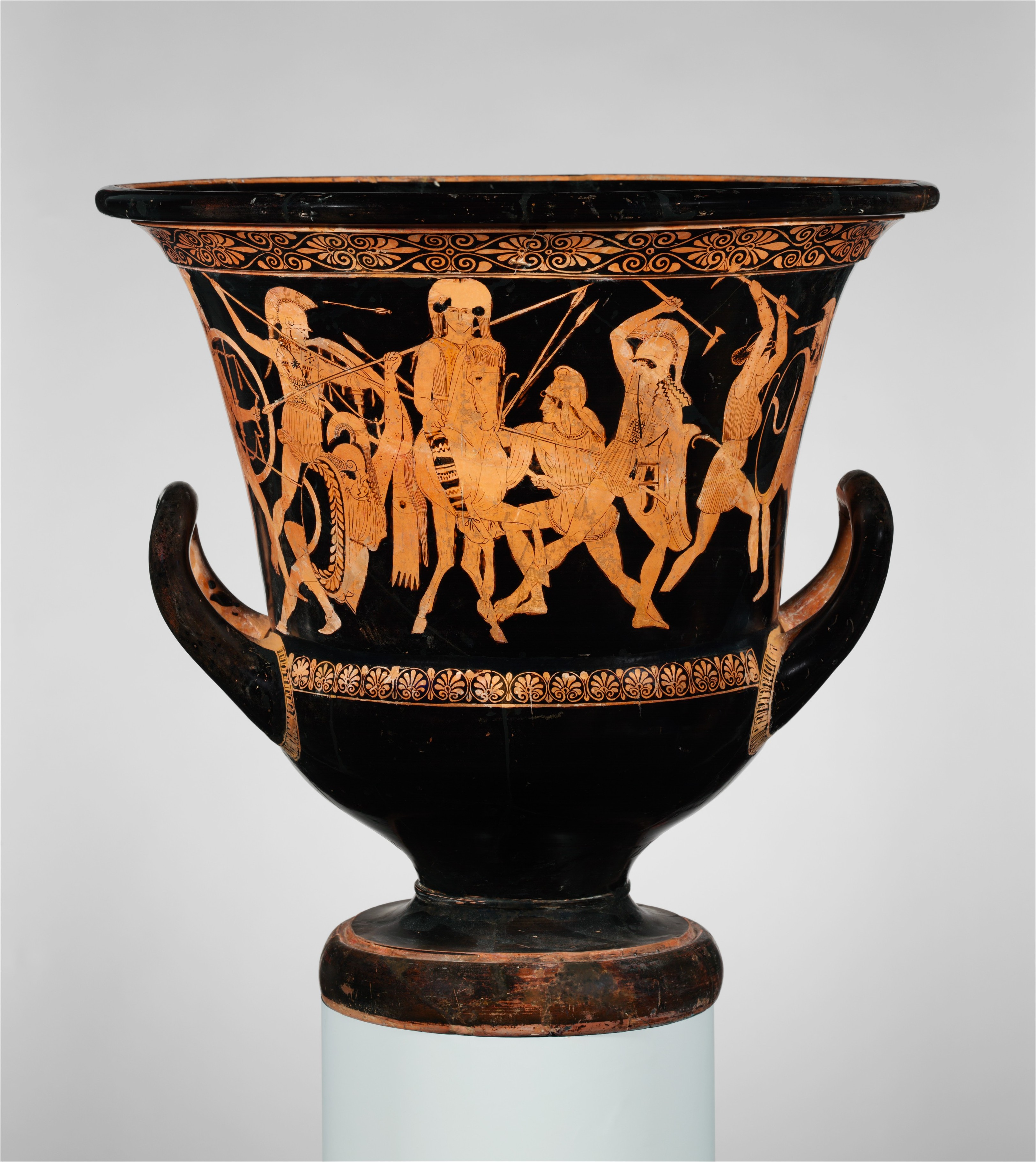 Greek, Attic; Calyx-krater; Vases